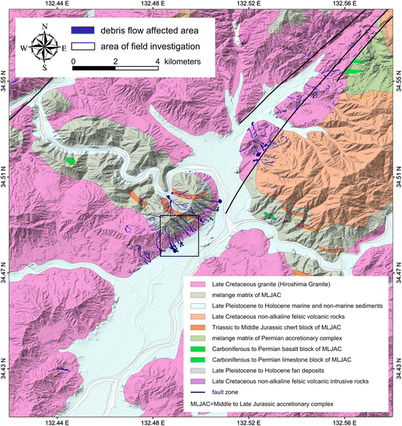 Fig. 4 Geological map (1:200,000) and debris flow and landslide distribution. The data are extracted from Geological Survey of Japan, National Institute of Advanced Industrial Science and Technology. The main types of rock in the target area, indicated by a black rectangle, are Hiroshima granite and hornfels